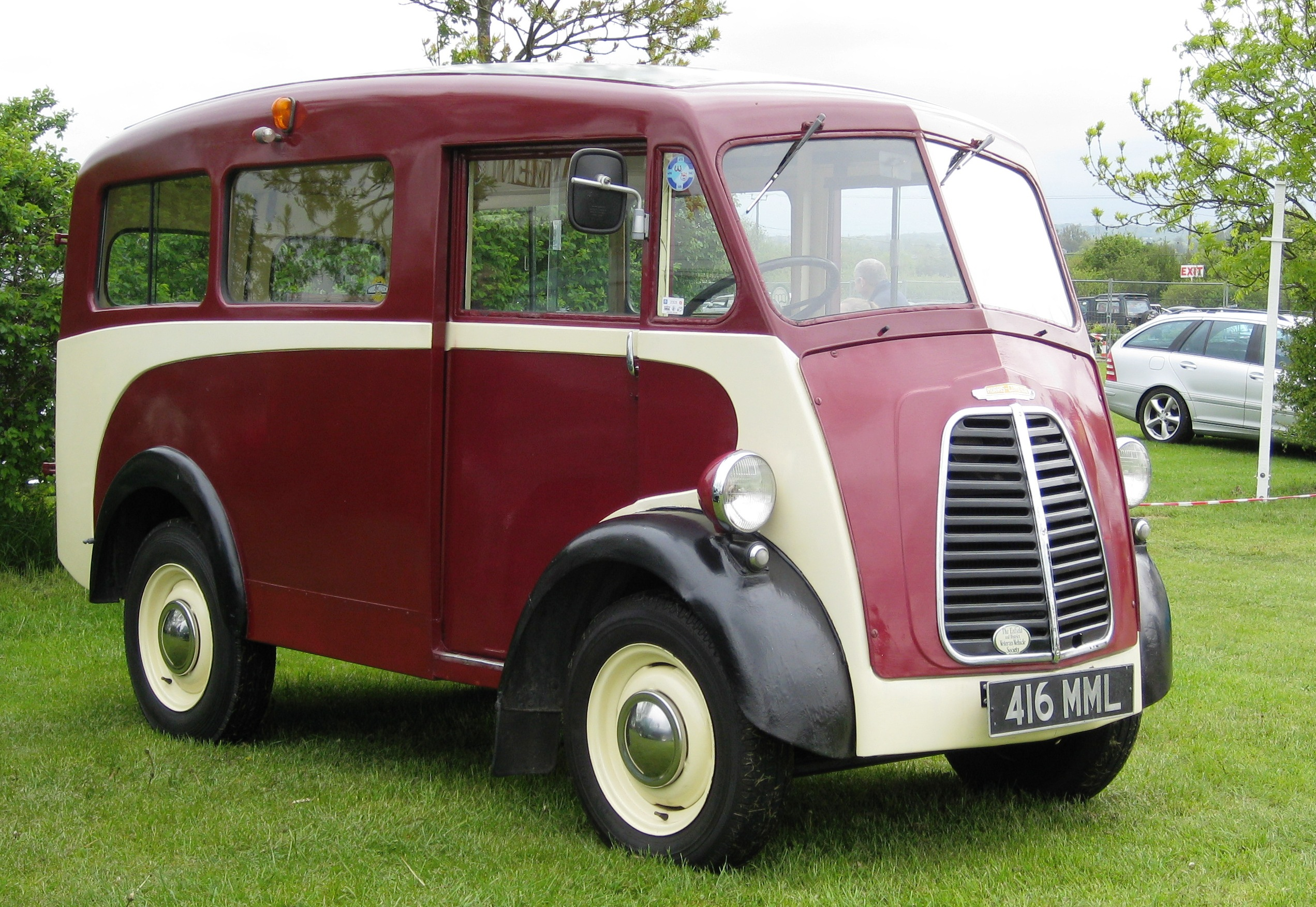 Morris J-Type with side windows and (probably as when delivered) a couple of rather half hearted bench seats mounted above the wheel arches in the back